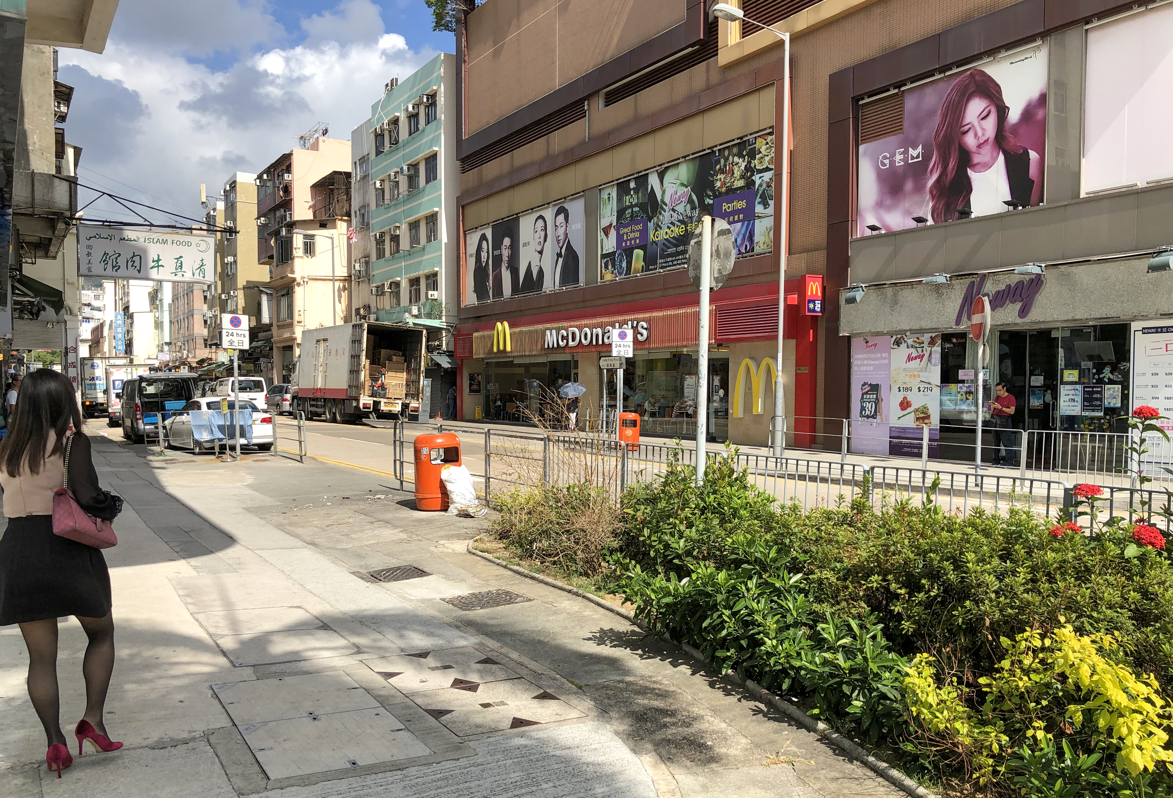 Most visitors use this road to reach Islam Food. Accessibility will be improved after the opening of the nearby Sung Wong Toi Station.